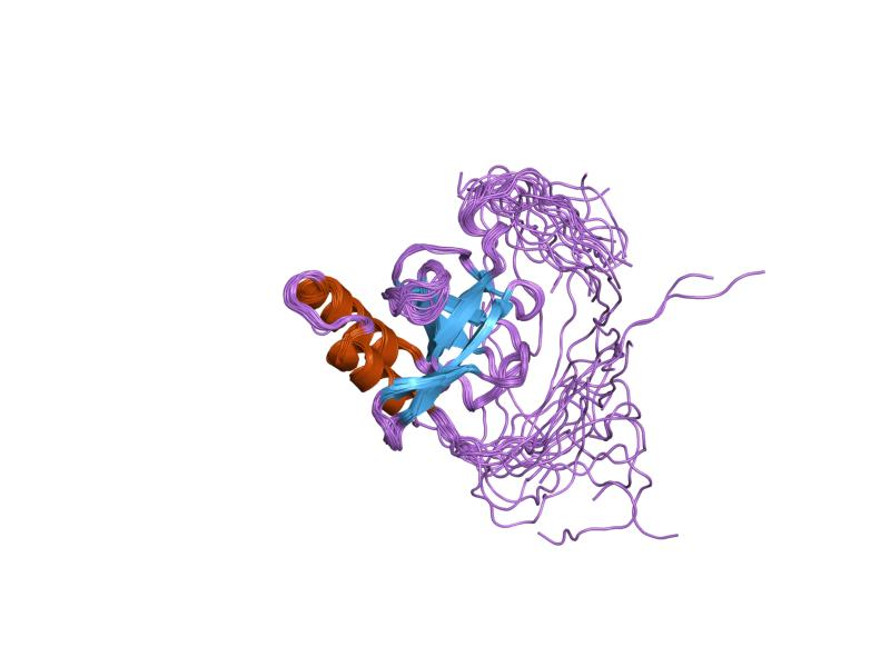 Cartoon representation of the molecular structure of protein registered with 1ugj code.